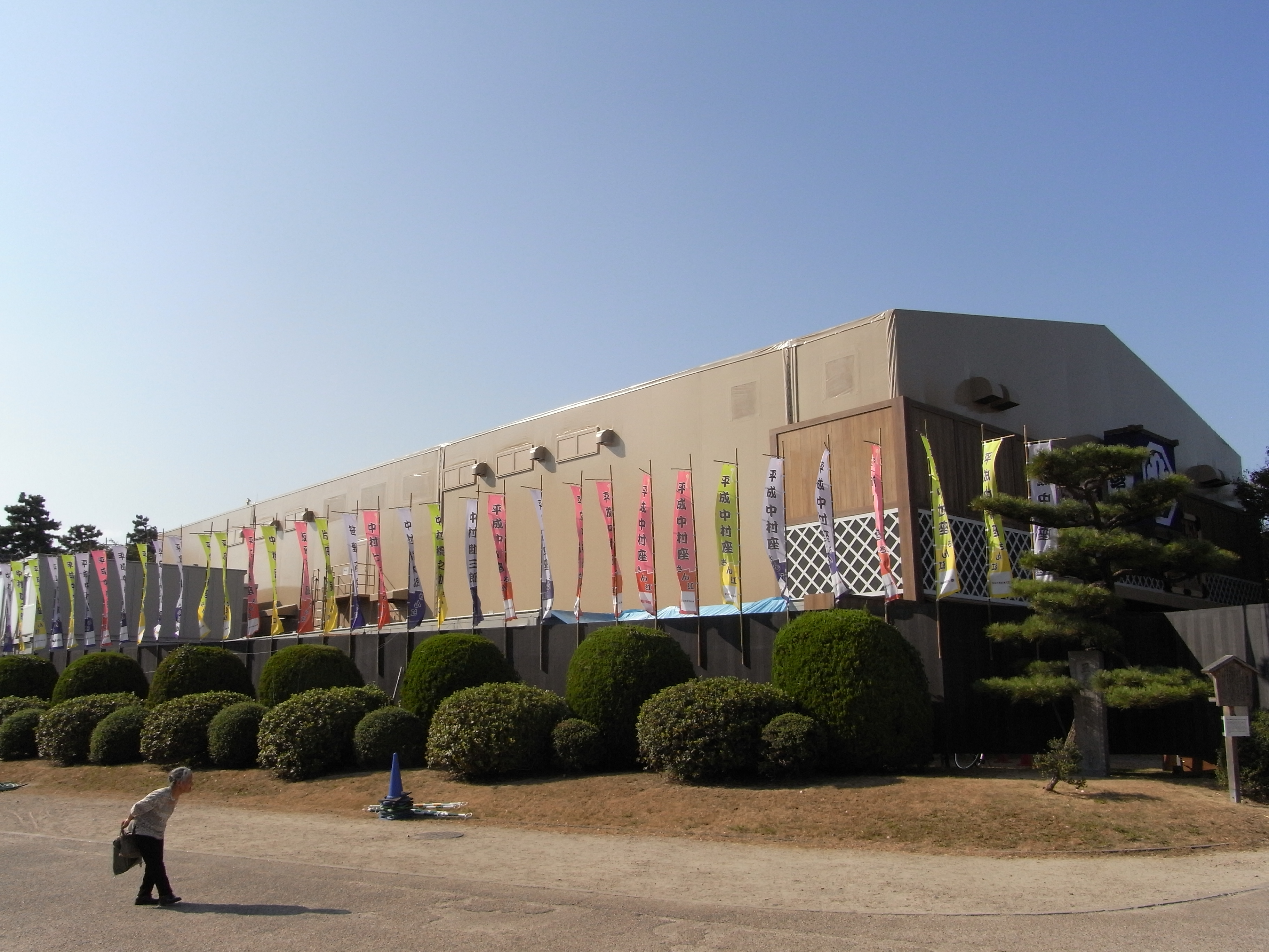 "Heisei Nakamura-za" Theater at Nagoya Castle